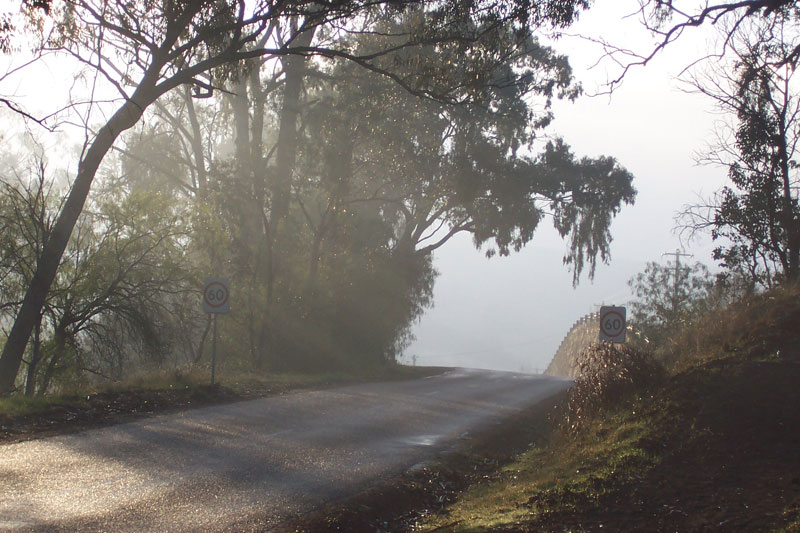 Misty road